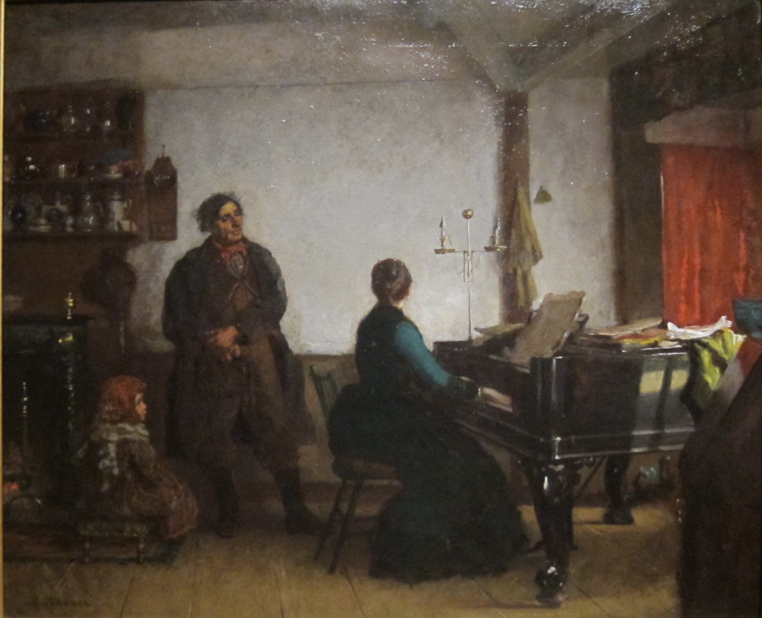 Play Me a Tune